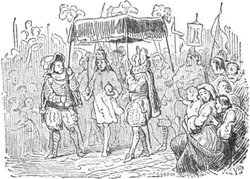 The Emperor's New Clothes